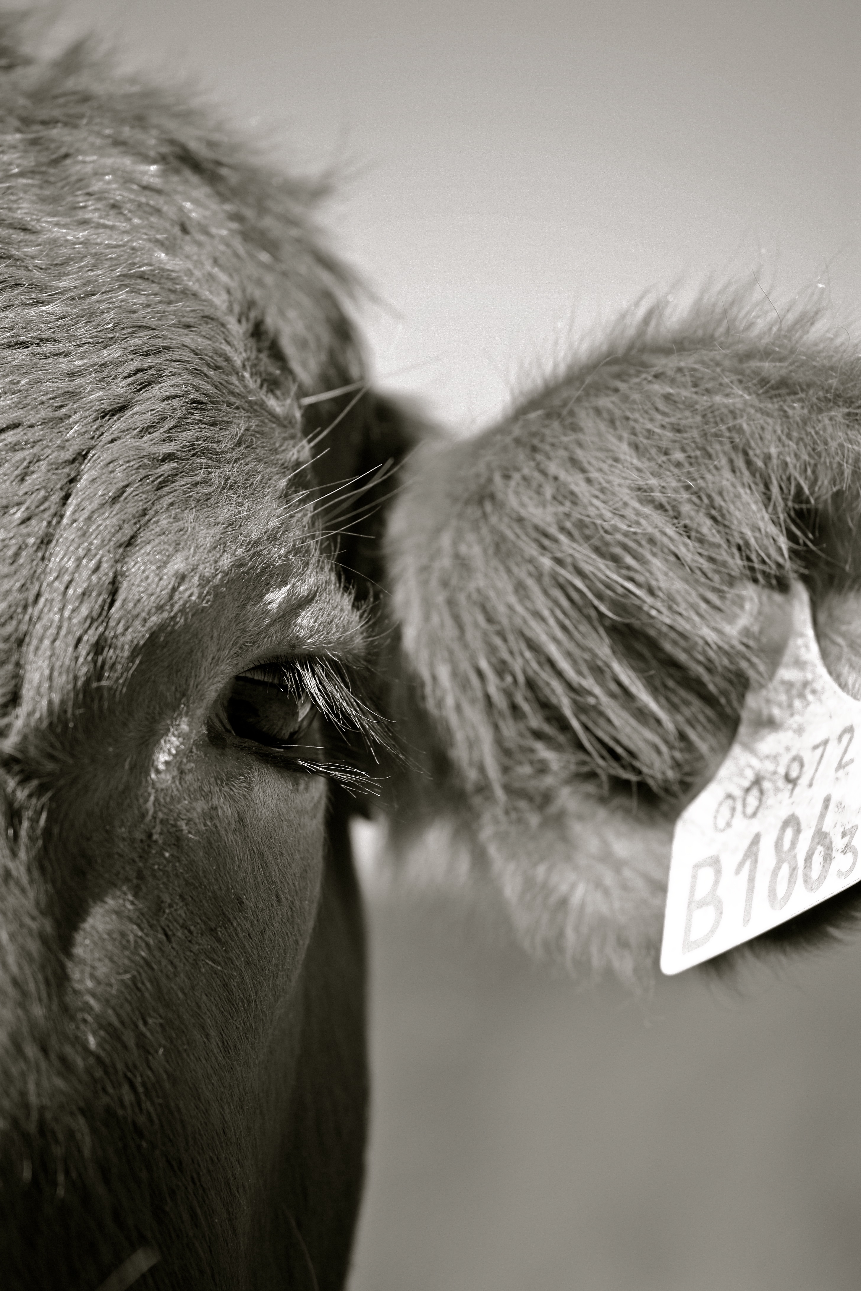 Cow Eye